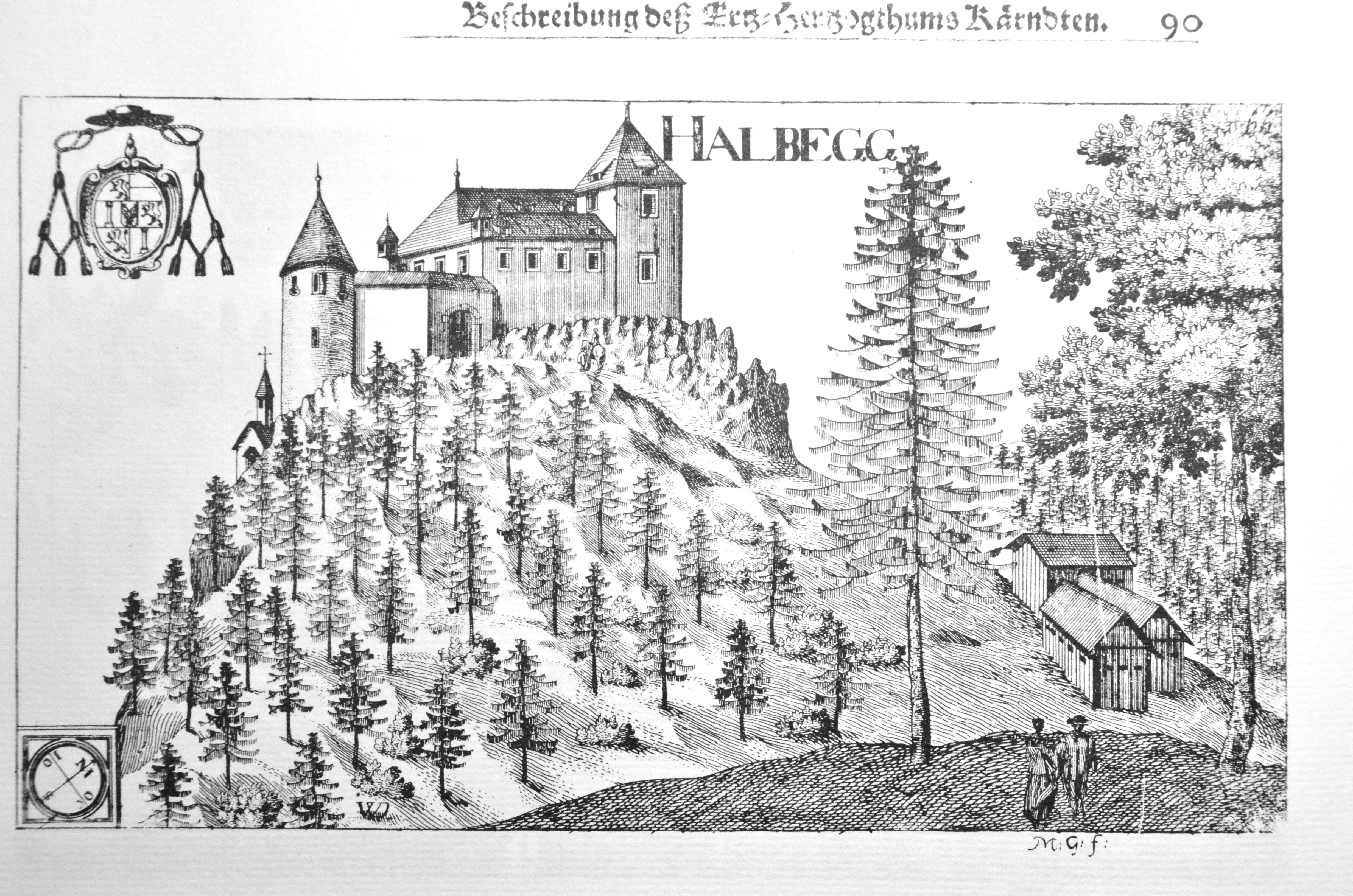 Castle of Alt-Albeck in the Carinthian municipality Albeck (Kärnten) in Carinthia / Austria / European Union.